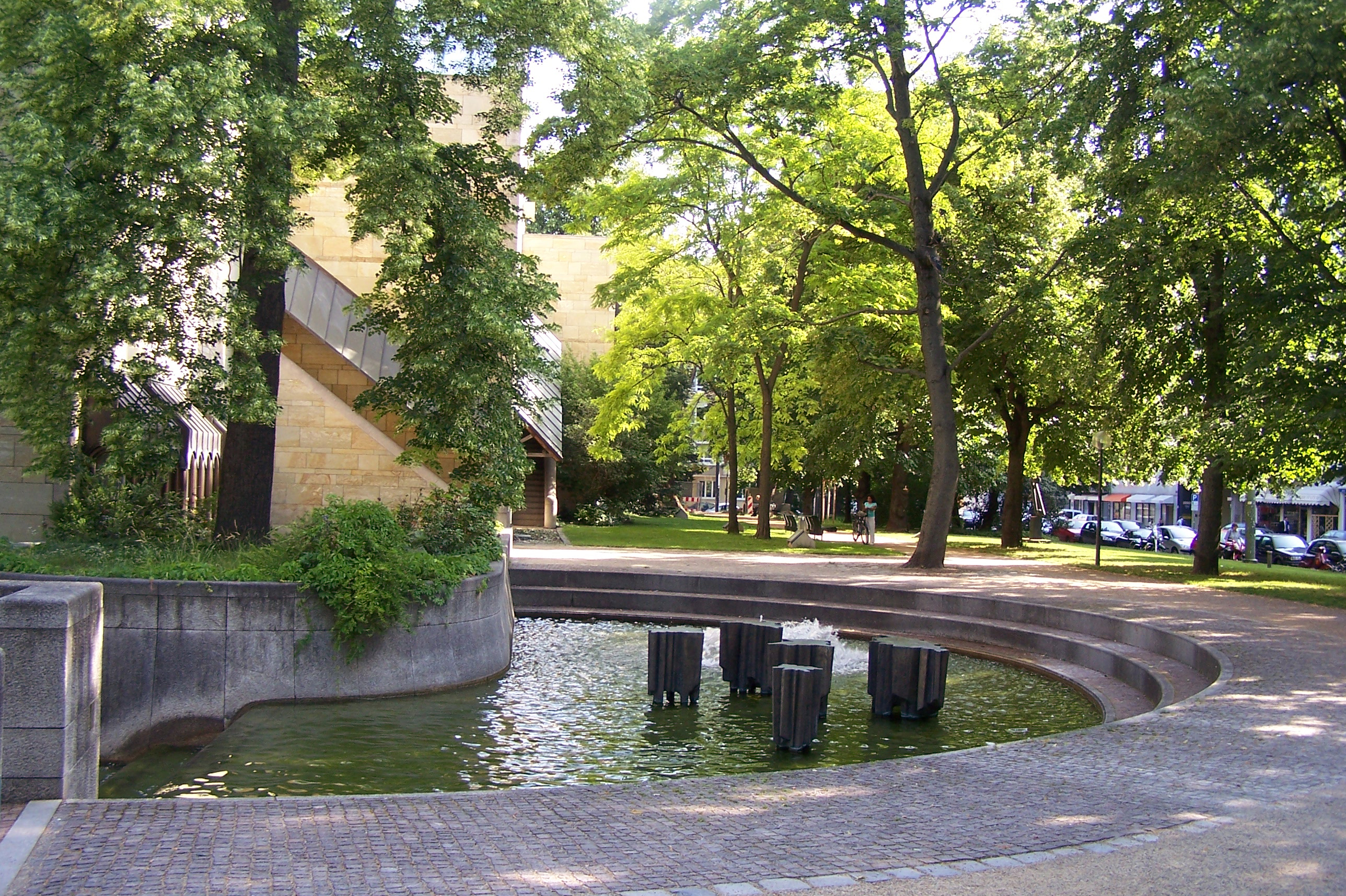 Neue Pinakothek